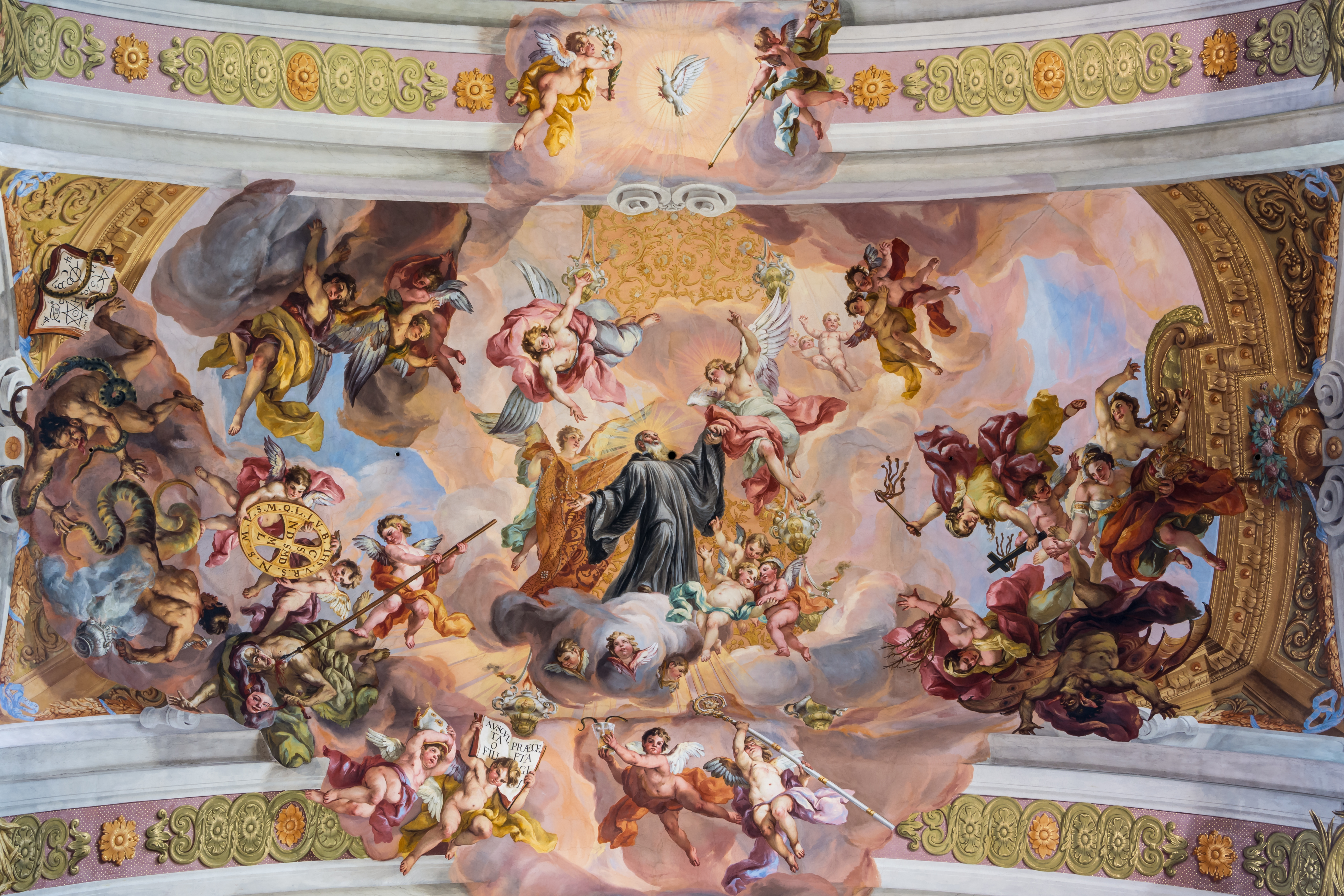 Ceiling fresco in the central arch of the nave at Melk Abbey Church by Johann Michael Rottmayr (1722): Via triumphalis of St. Benedict